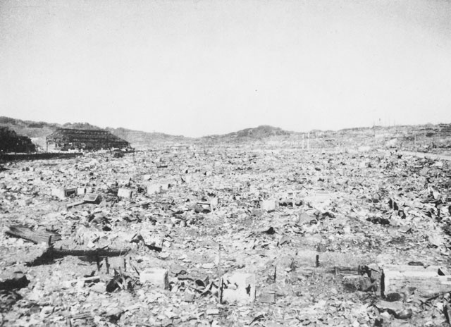 Around Iwakawacho, Nagasaki City, which became a burnt field after the bombing of Nagasaki. The black building on the left is the Mitsubishi Electric Foundry. (Nagasaki Atomic Bomb Museum Search Document number 6-21-00-00-0016)